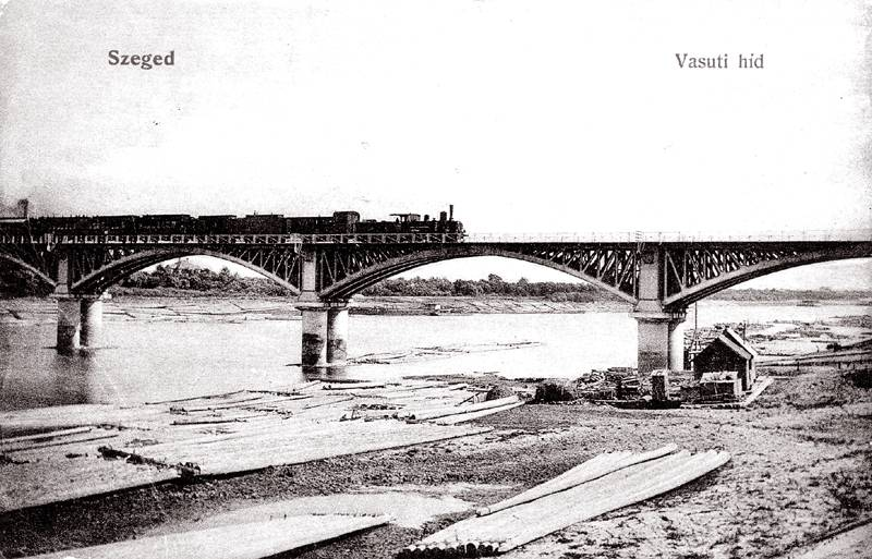 The old railway bridge of Szeged; Hungary